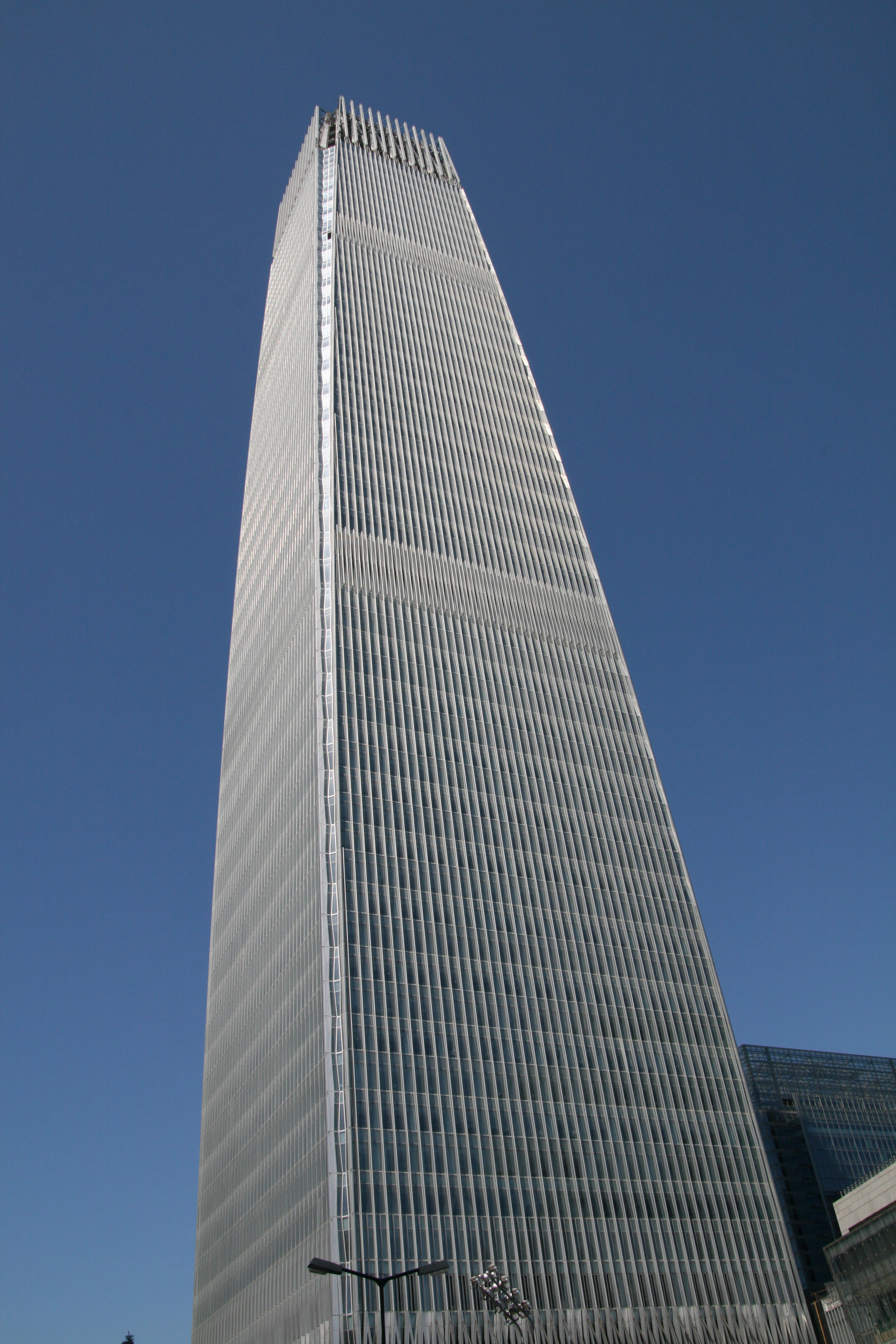 The China World Trade Center Tower III in Beijing, China. Architect: Skidmore, Owings & Merrill